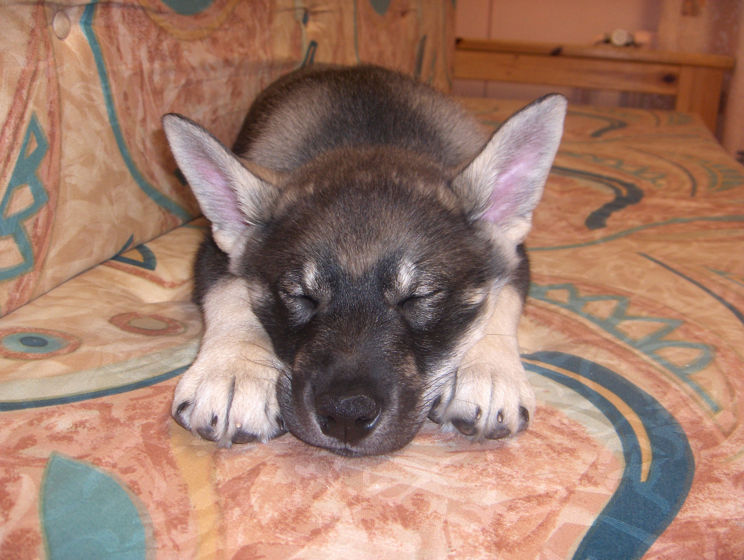 My big puppies ^^ (Swedish Elkhound)